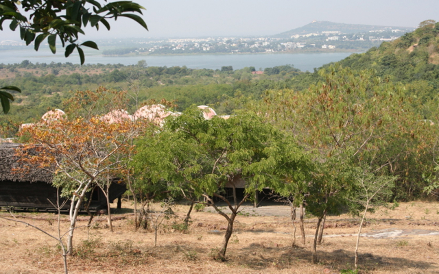 Manav Sangrahalaya, Bhopal's grand museum of man. Syncretism tour, Oct '11. A view of the lake and part of the city of Bhopal Nature Geography of Bhopal Madhya Pradesh India